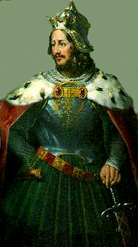 William of Winchester also known as Wilhelm von Lüneburg (1184-1213). Ancient ancestor of the House of Hanover.